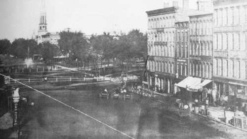 Cleveland, Ohio. Possibly the oldest photograph of Public Square from 1857.